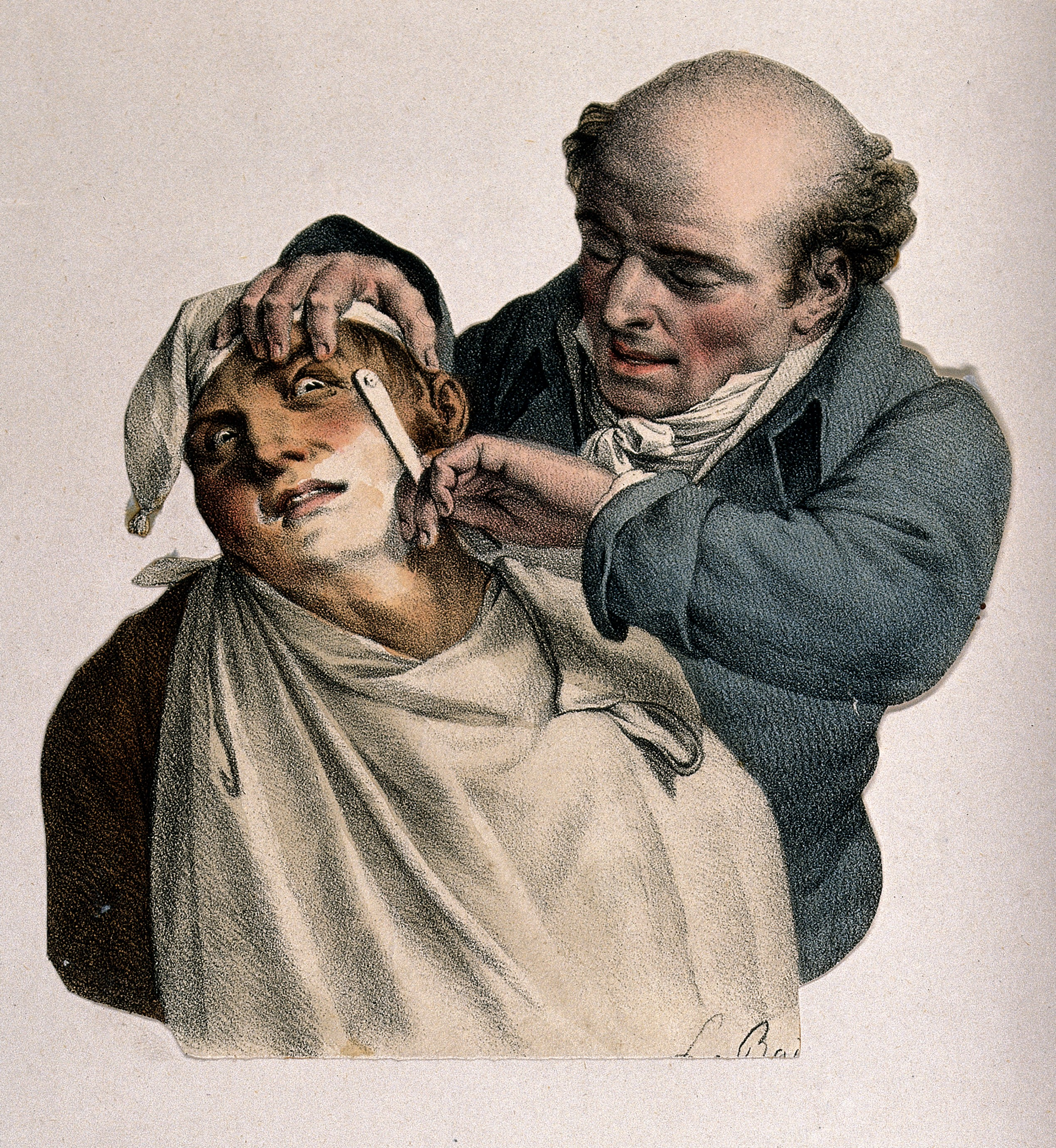 A barber shaving a man who looks extremely fearful. Lithograph by L. Boilly after himself. Iconographic Collections Keywords: Louis-Léopold Boilly